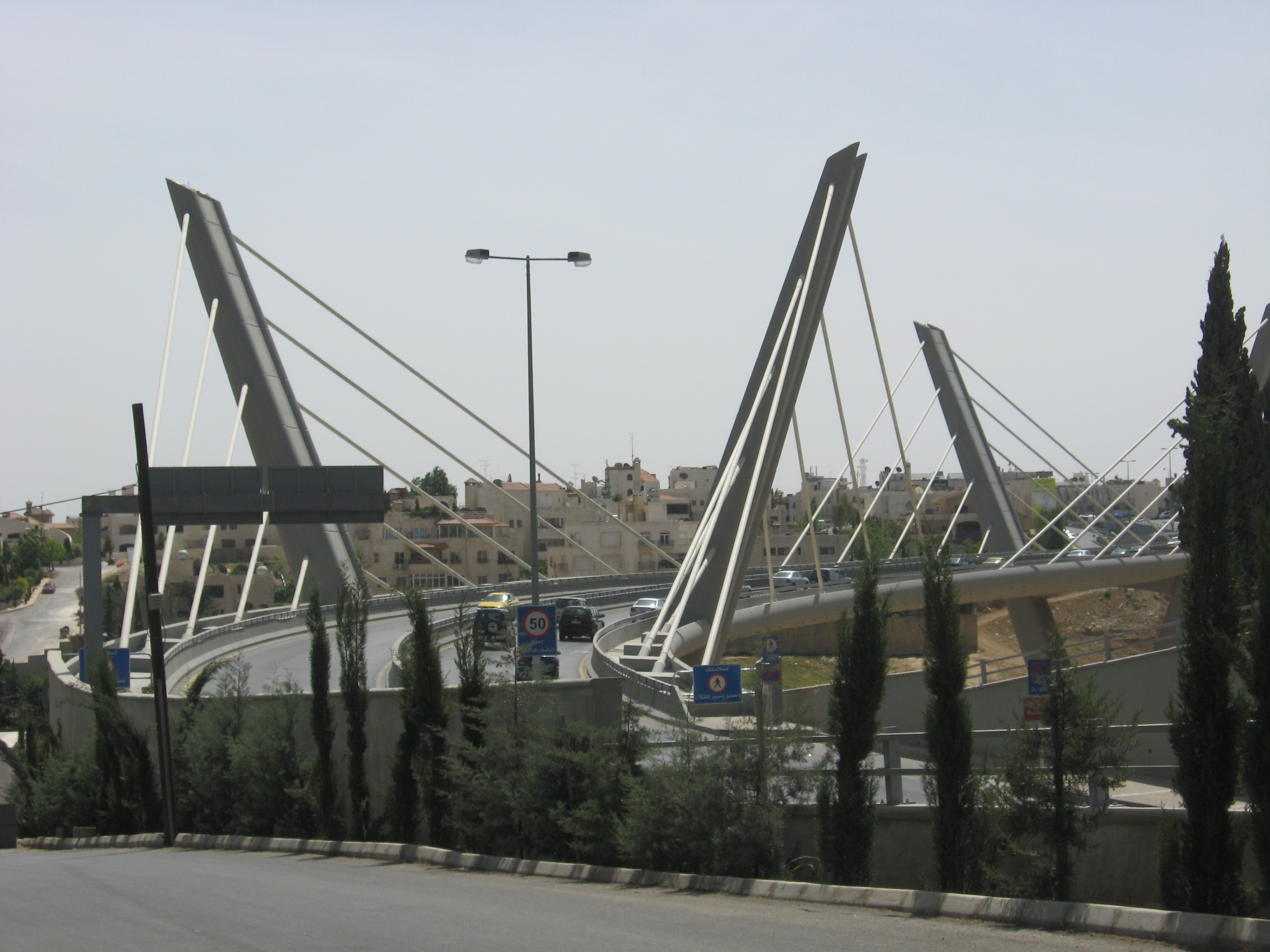 Abdoun Bridge, photographed from the en:4th Circle. April 2008.